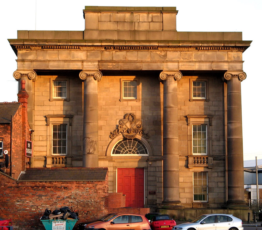 The frontage of Curzon Street Station in Birmingham. This was the terminus of the London and Birmingham Railway.